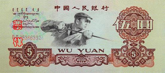 Third series of the renminbi 5yuan(sample)